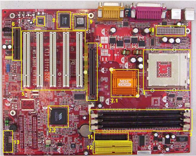 An ATX computer motherboard "MSI KT3 Ultra ver 1.0" (KT333 chipset) with labeled parts. Legend: 1. Processor socket 2. Chipset 3. RAM slots 4. AGP graphic card slot 5. PCI slots 6. CNR modem slot 7. Audio chip 8. I/O chip 9. BIOS 10. ATX power connector 11. Floppy drive connector 12. ATA connectors 13. Connectors for buttons, indicator lights etc.